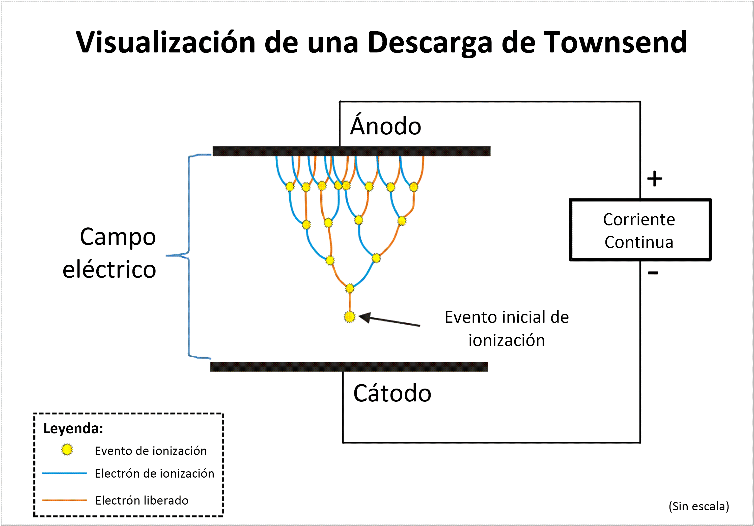 Visualisation of an electron avalanche, also known as a Townsend discharge or a townsend avalanche. The applied electric field accelerates free electrons to collide with other atoms and release further electrons, causing an avalanche. This phenomena is used in a variety of radiation and particle detection instruments where the gas multiplication effect is used. This includes Geiger-Muller counters and Proportional counters.